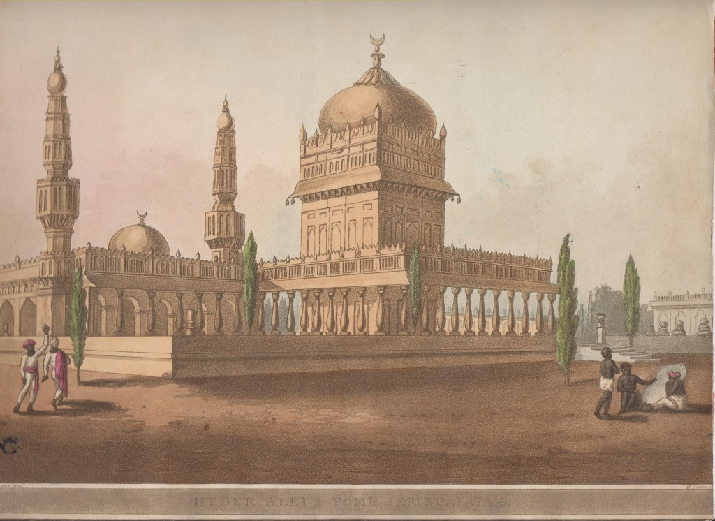 "Hyder Ally's Tomb, Seringapatam," in an aquatint by Merke, after James Hunter, from 'Picturesque Scenery in the Kingdom of Mysore' (E. Orme, London, 1804)